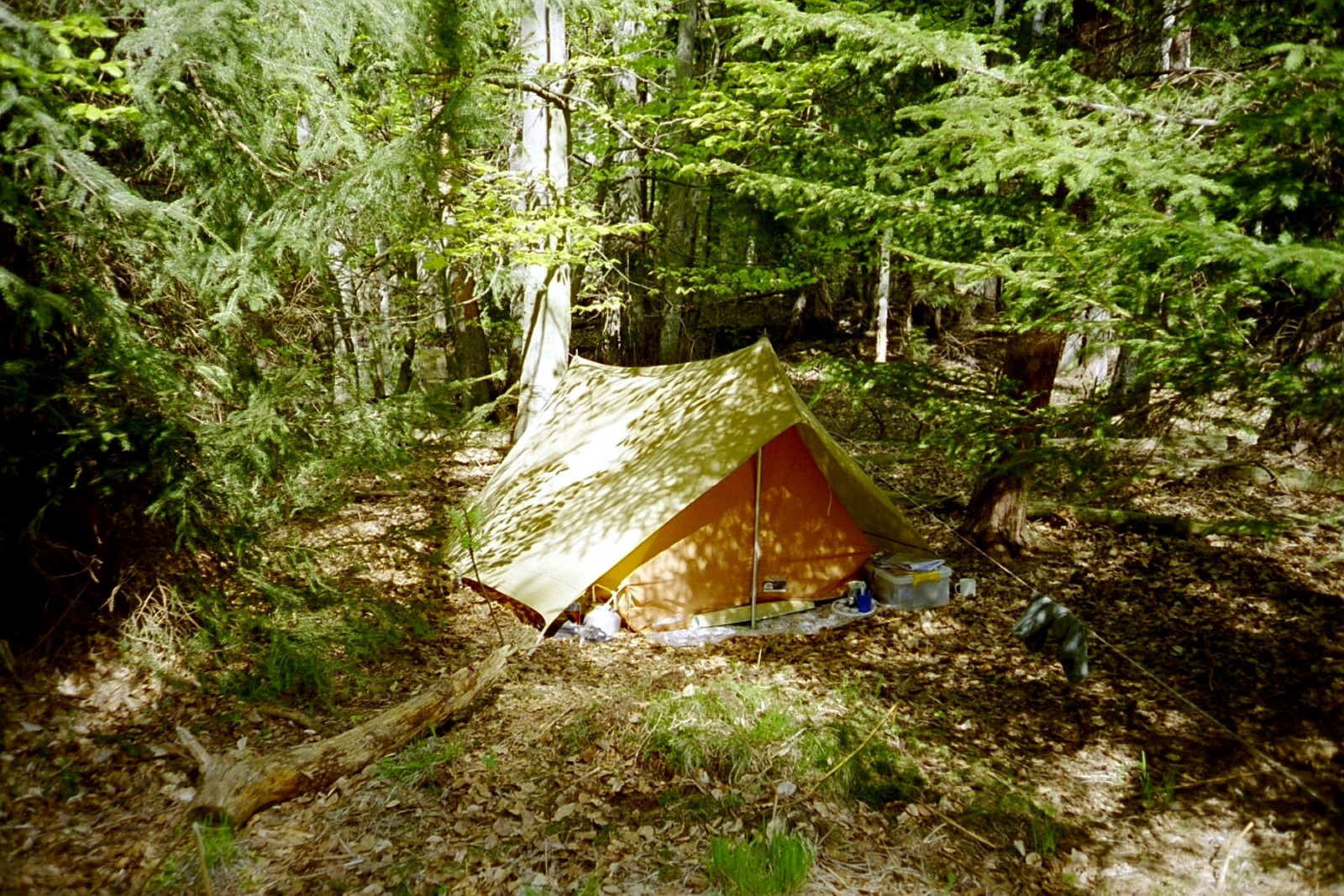 Tent in the woods (Gelbensande Forest). This tent is a "Upavan Start III" from the former Czechoslovakia (ČSSR).